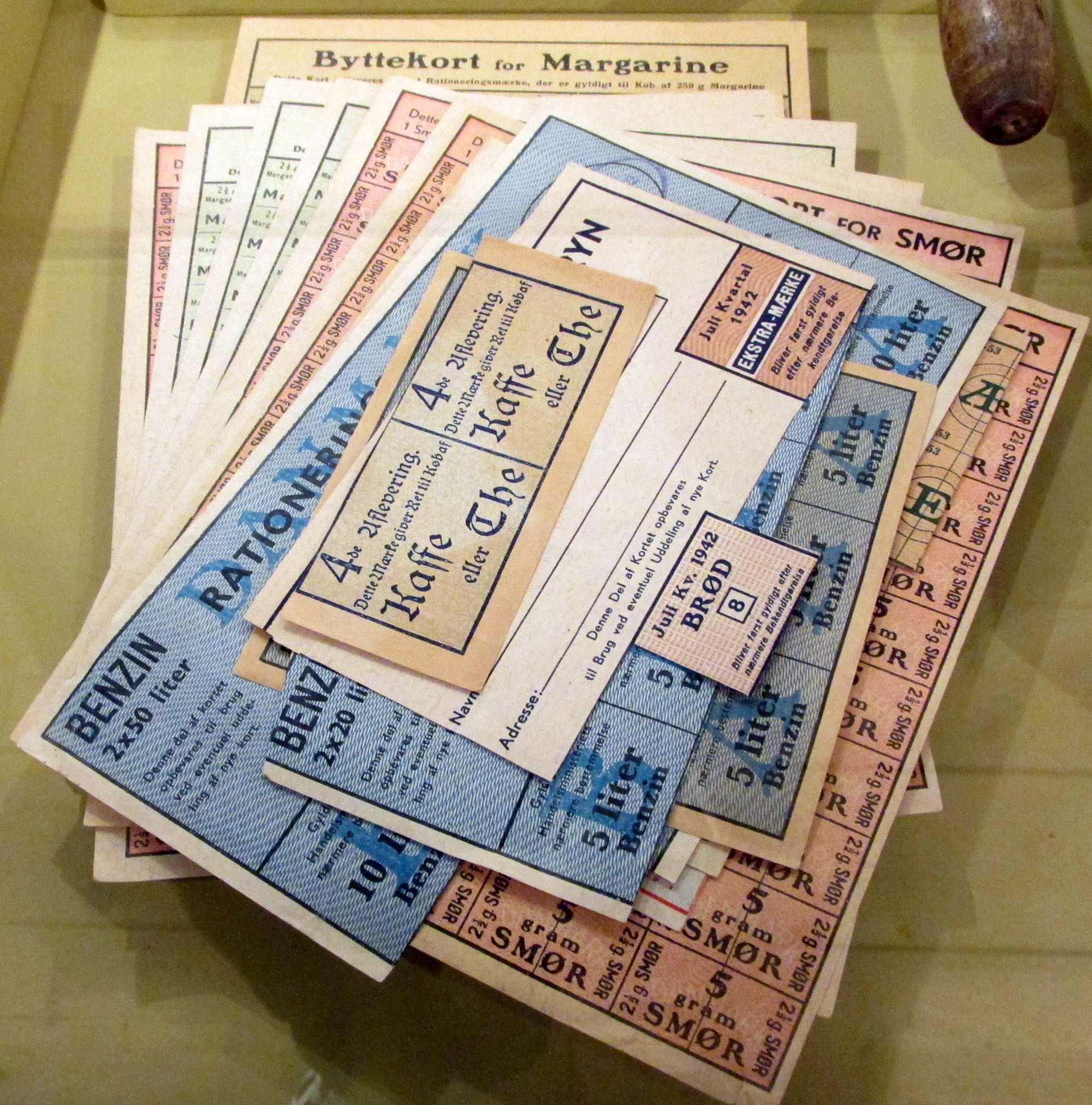 Danish ration stamps from 1942